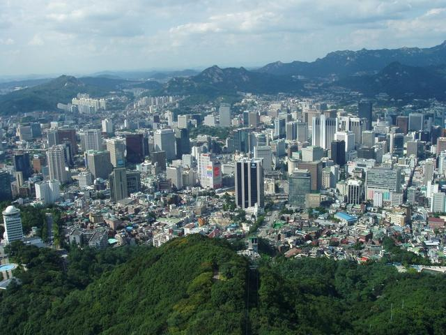 A part of northen district of Seoul Category:Seoul